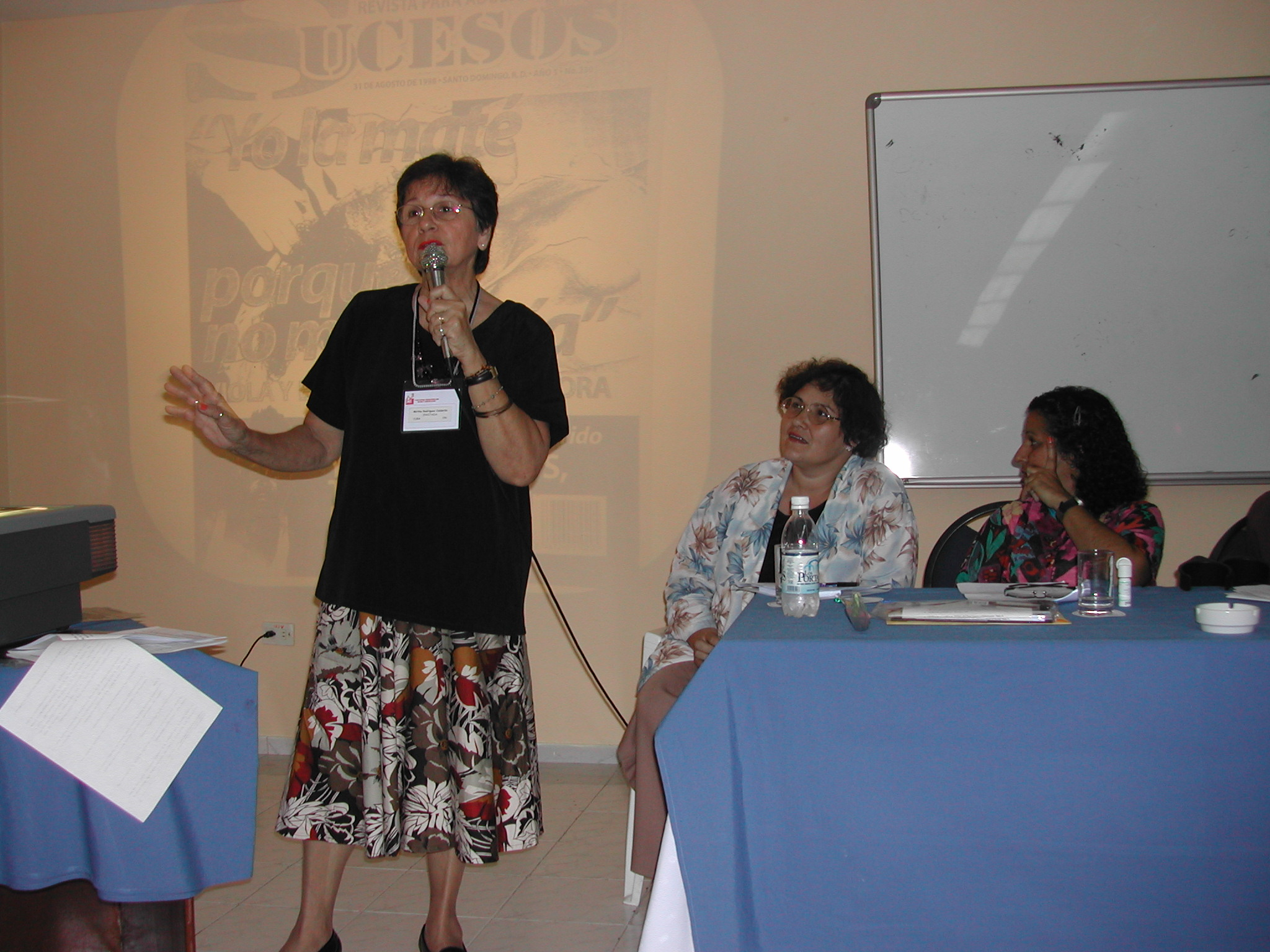 V Congreso Latinoamericano de Género y Comunicación - La Habana - Cuba junio 2002